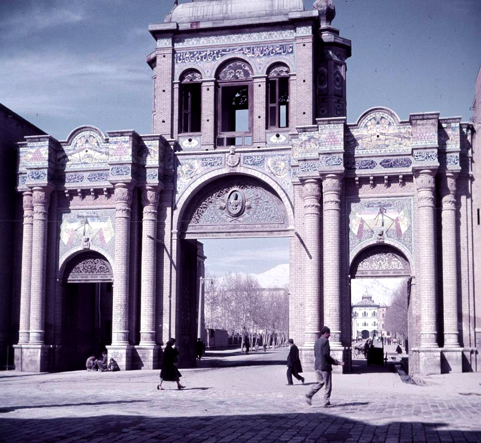 Bagh-e Melli gate